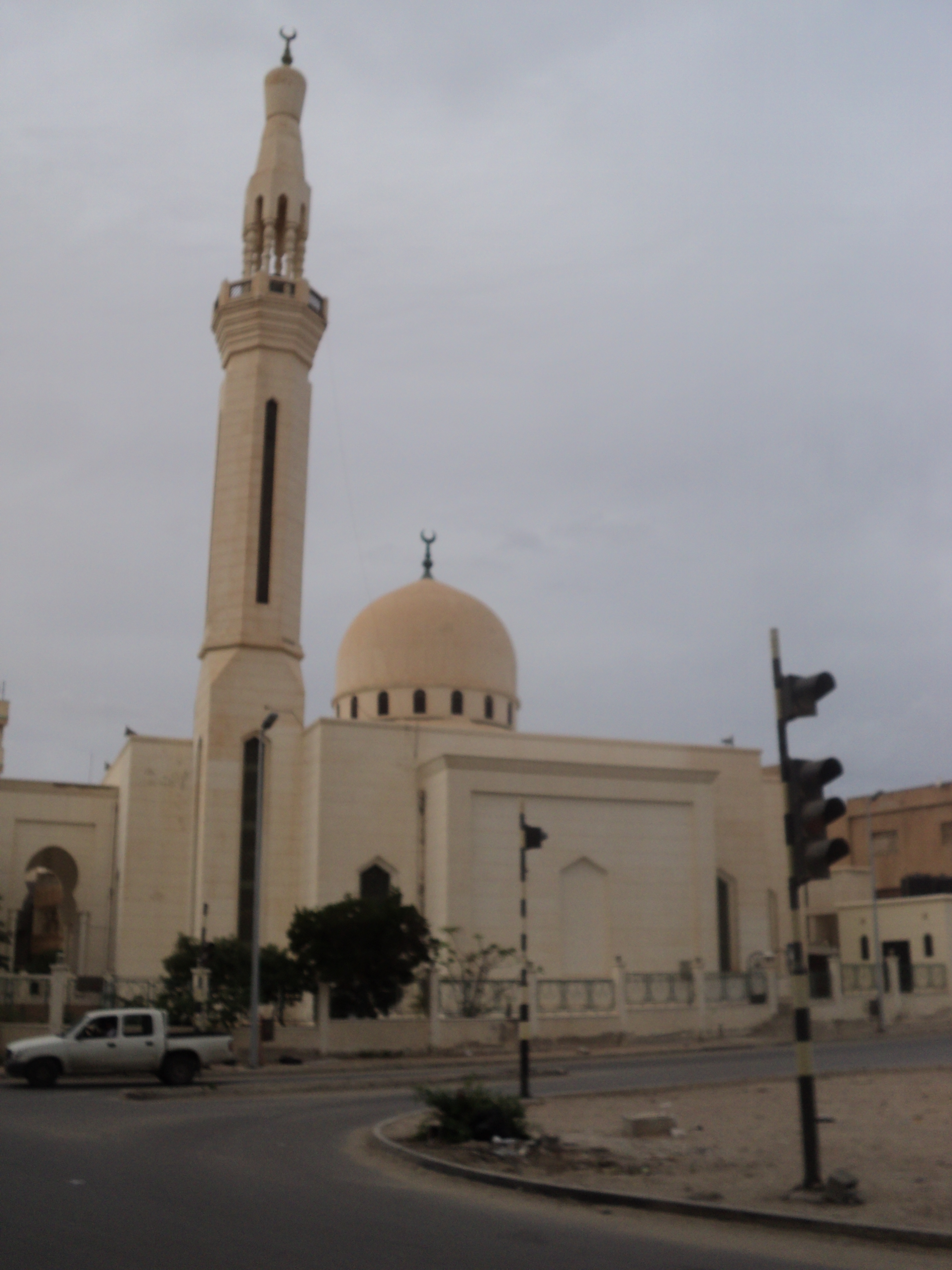 Al Atiq mosque, Tobruk-Libya.